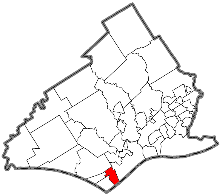 Showing the location within Delaware County, Pennsylvania.